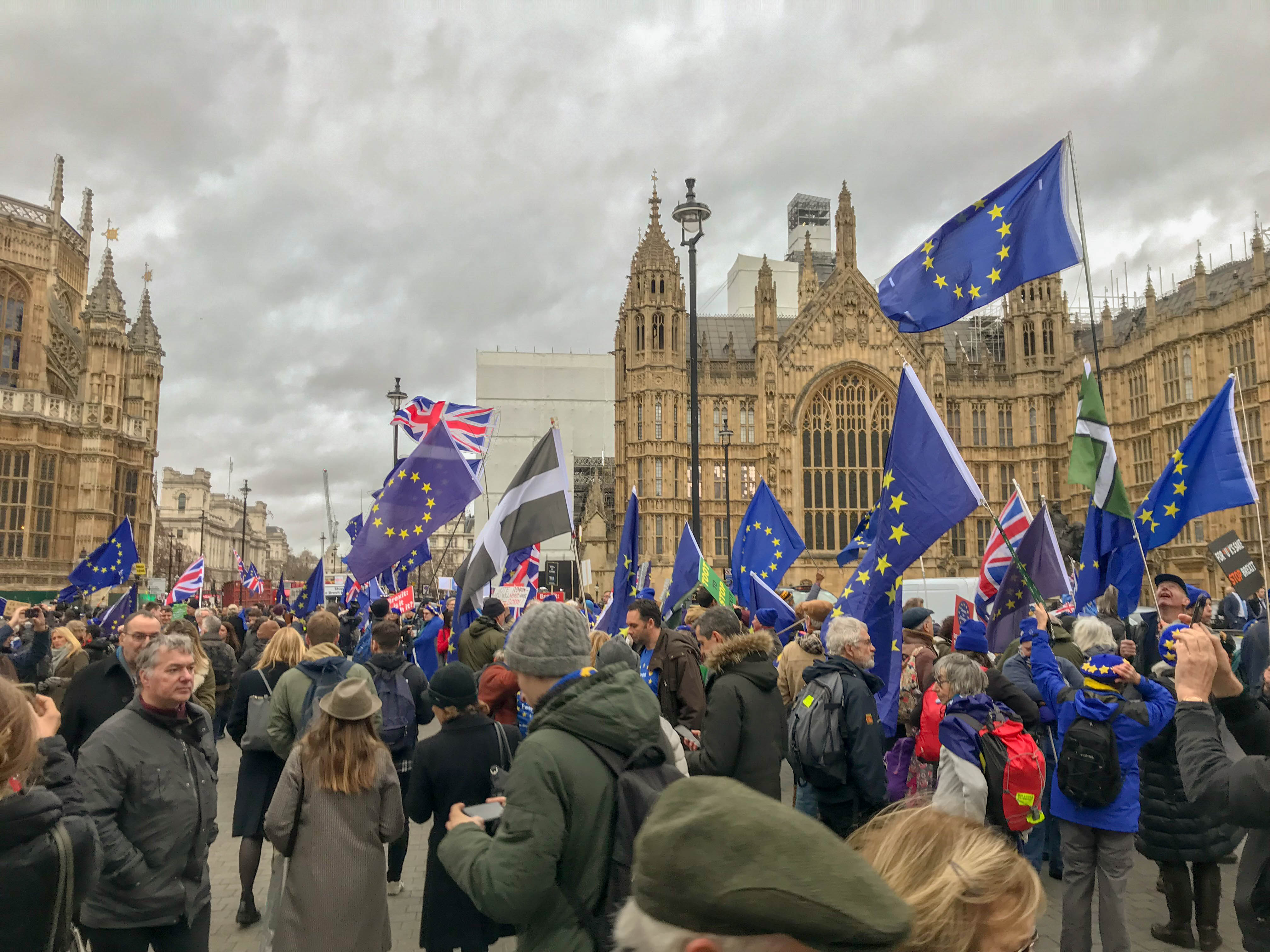 2019-01-15 Brexit Vote